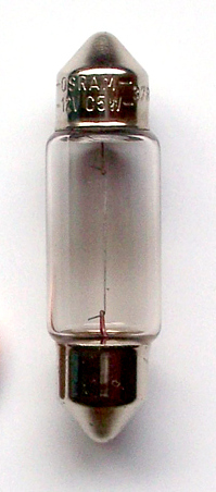 Festoon for car interior usage, 5 W, outer diameter about 11 mm